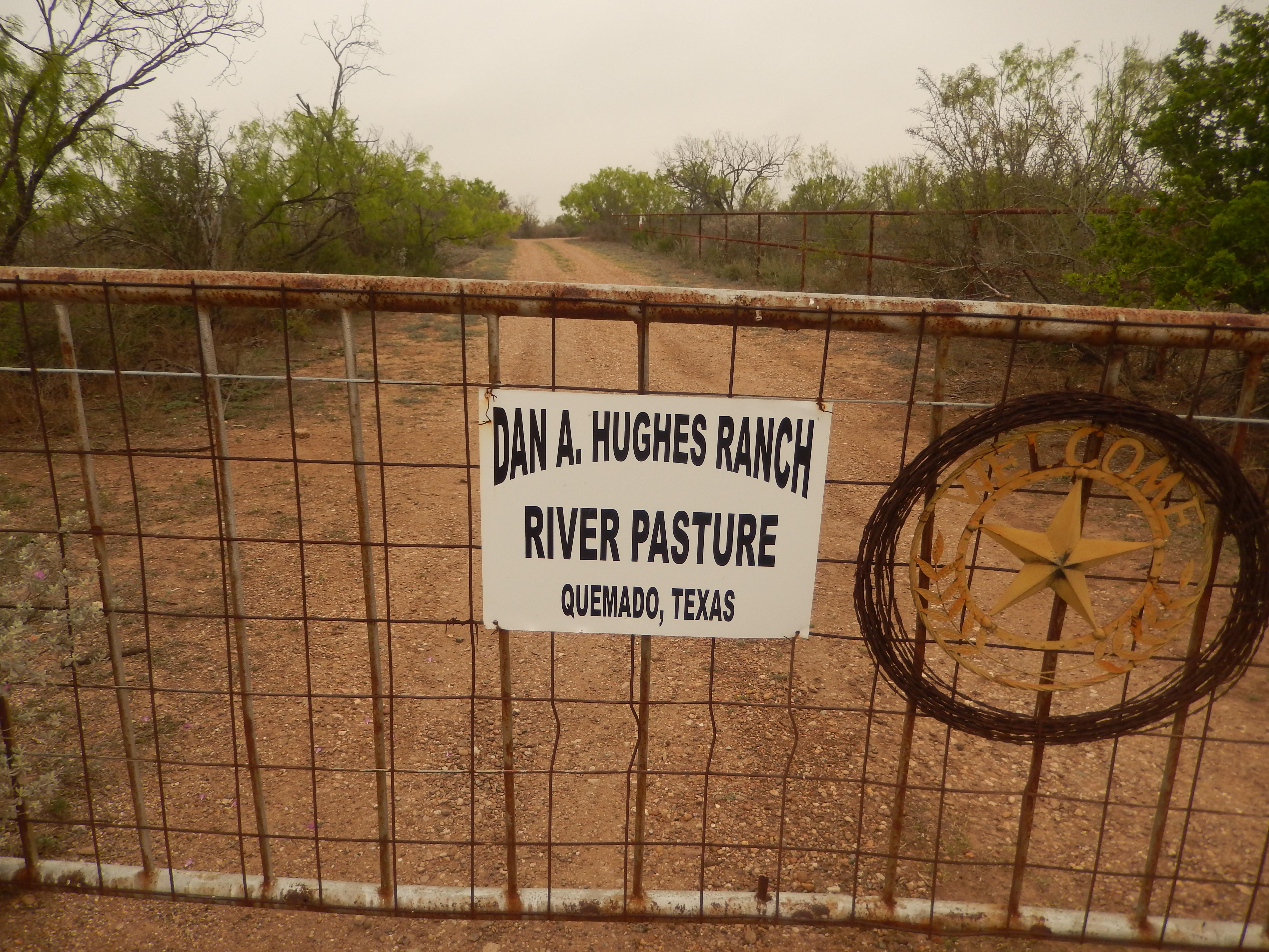 I took photo with Nikon camera of Dan A. Hughes Ranch entrance gate near Quemado, TX.